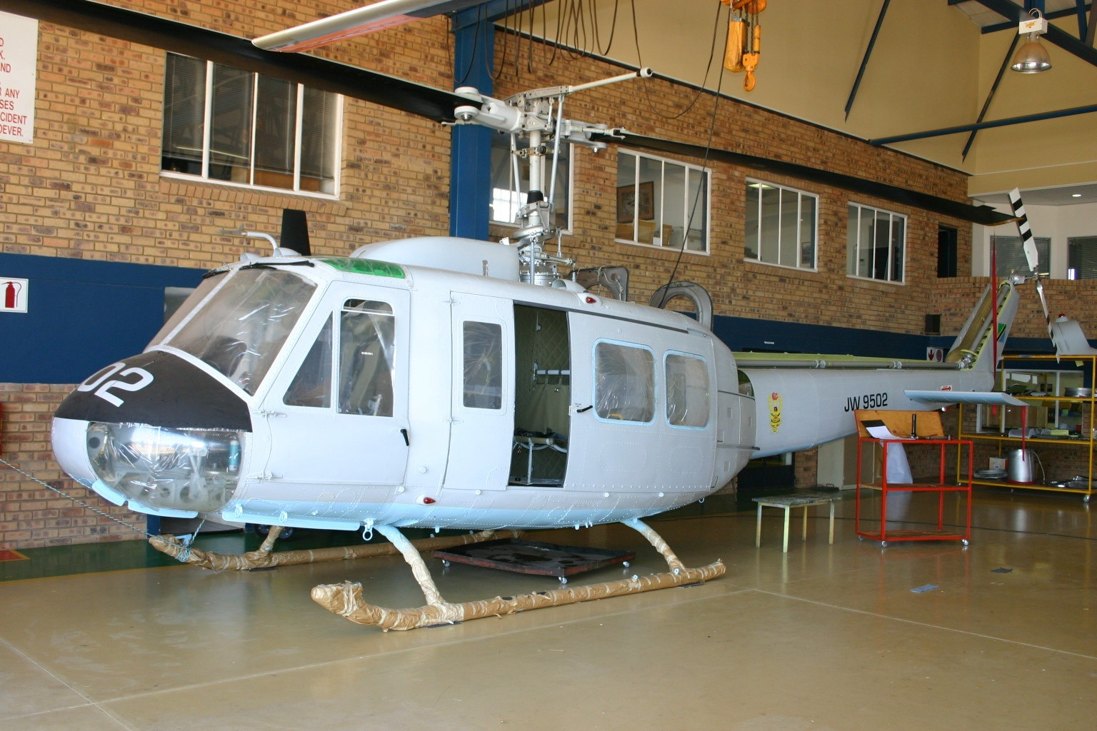 At Wonderboom Airport